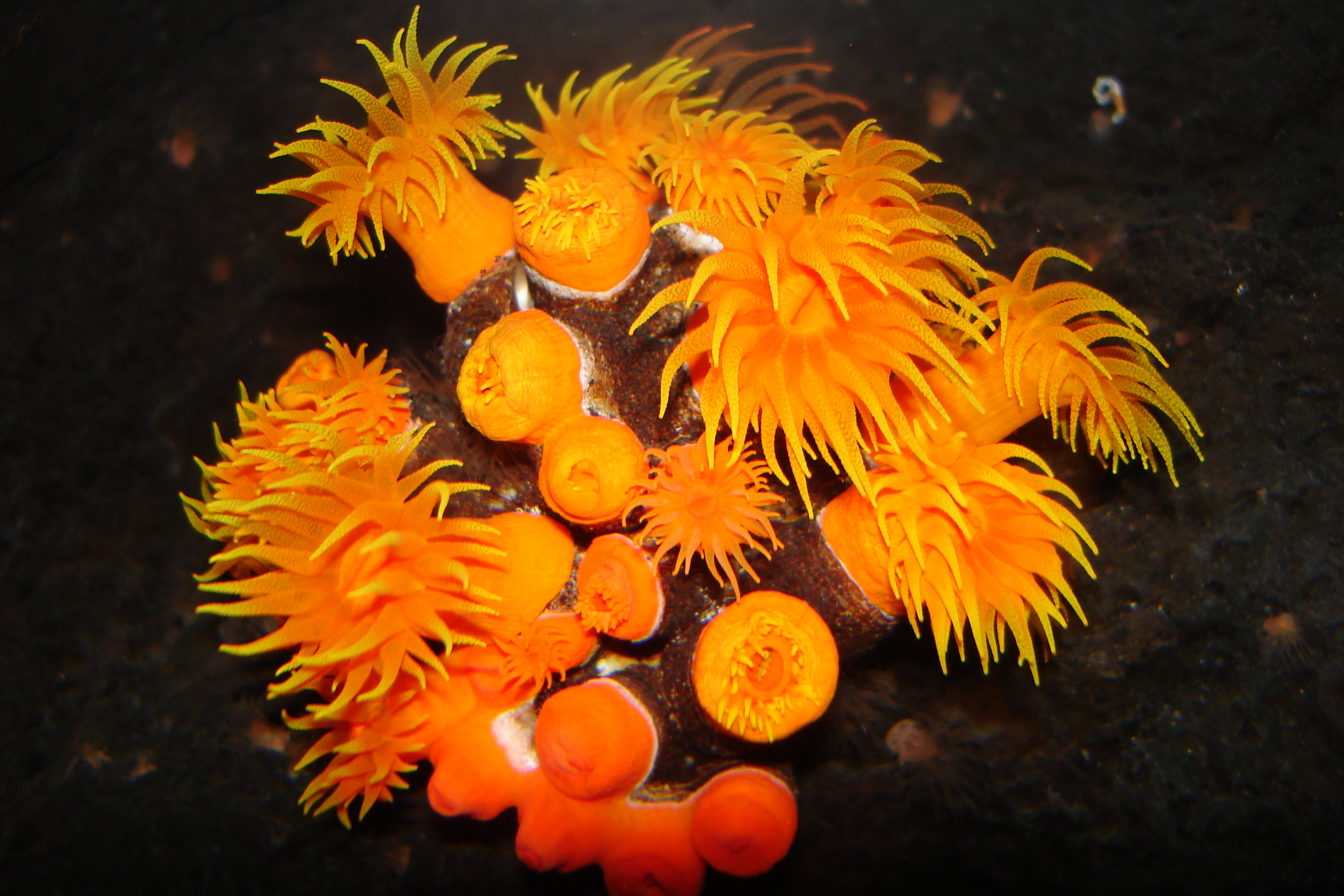 Tubestrea sp.